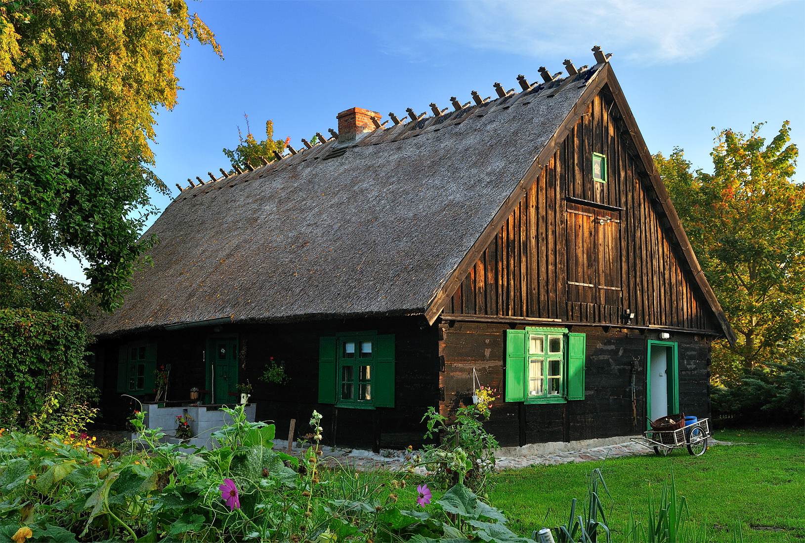 A historic Warmian cottage in Kaborno, a village in the Warmian-Masurian province.